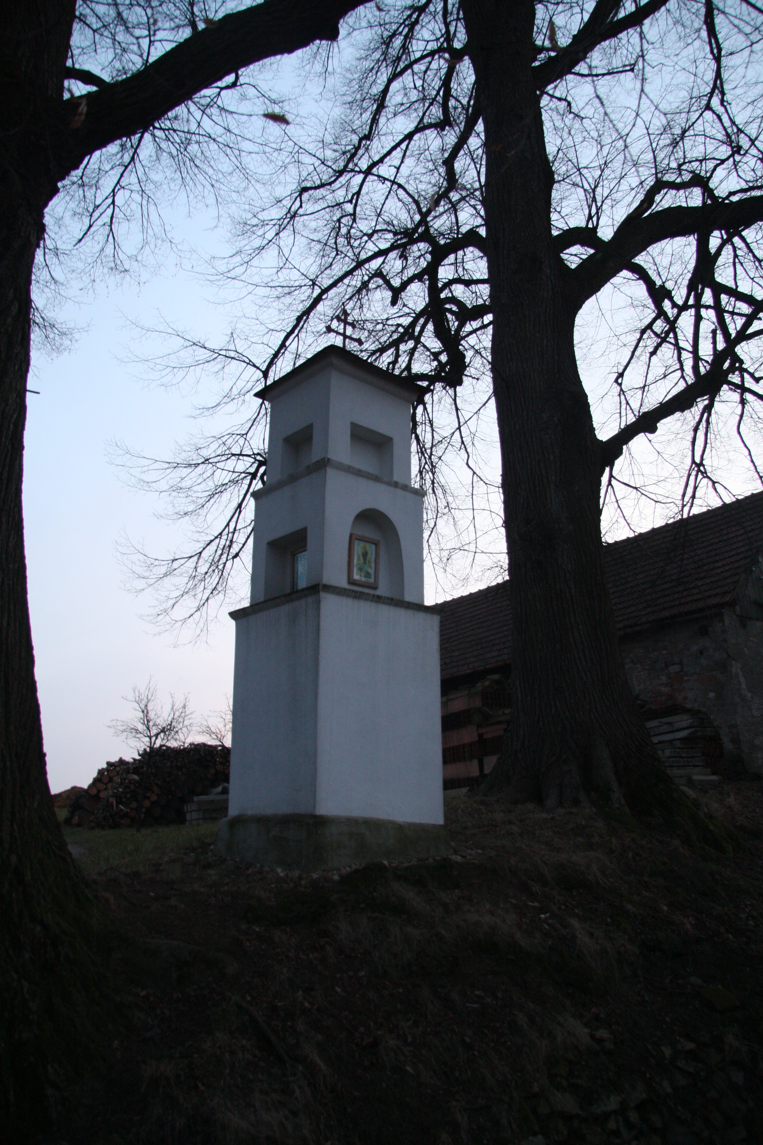 Wayside Shrines in Lhánice, Třebíč District.